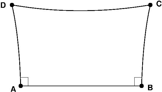 Saccheri quadrilateral